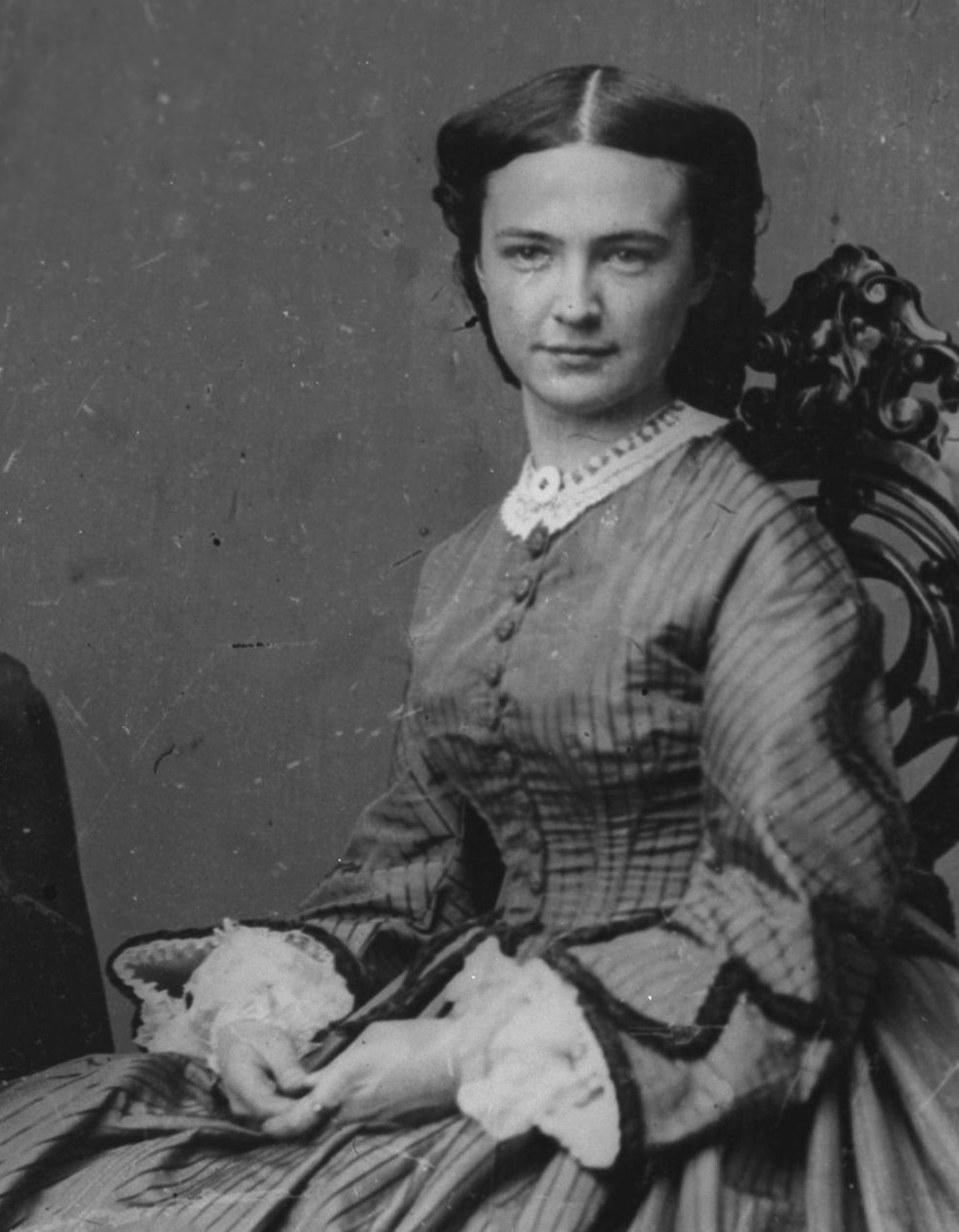 Elizabeth Bacon Custer cropped from a picture with George Armstrong Custer ex libris Library of Congress description: "Gen. George Custer & Wife"